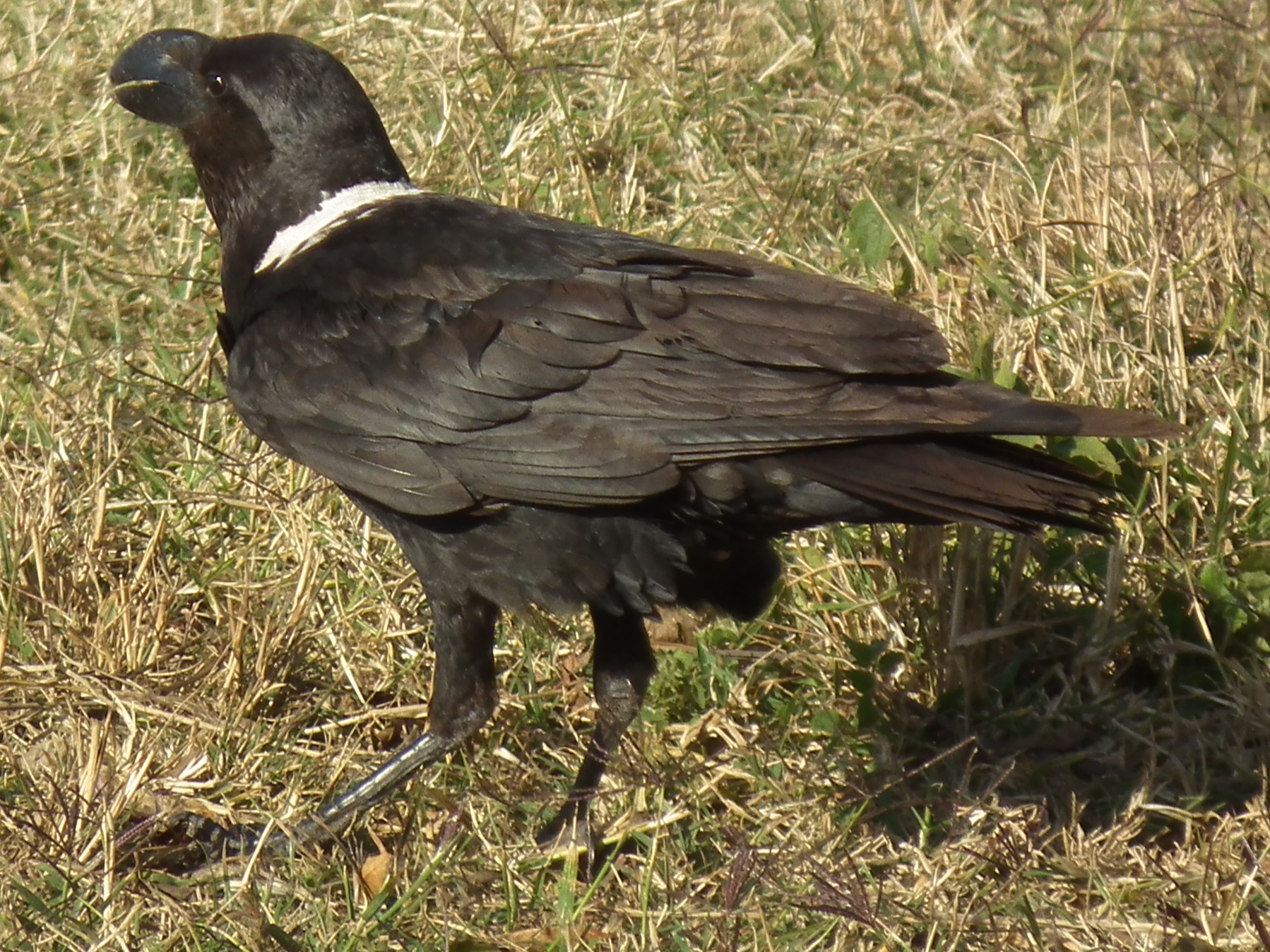 White-necked Raven (Corvus albicollis), picture taken, Northern Tanzania